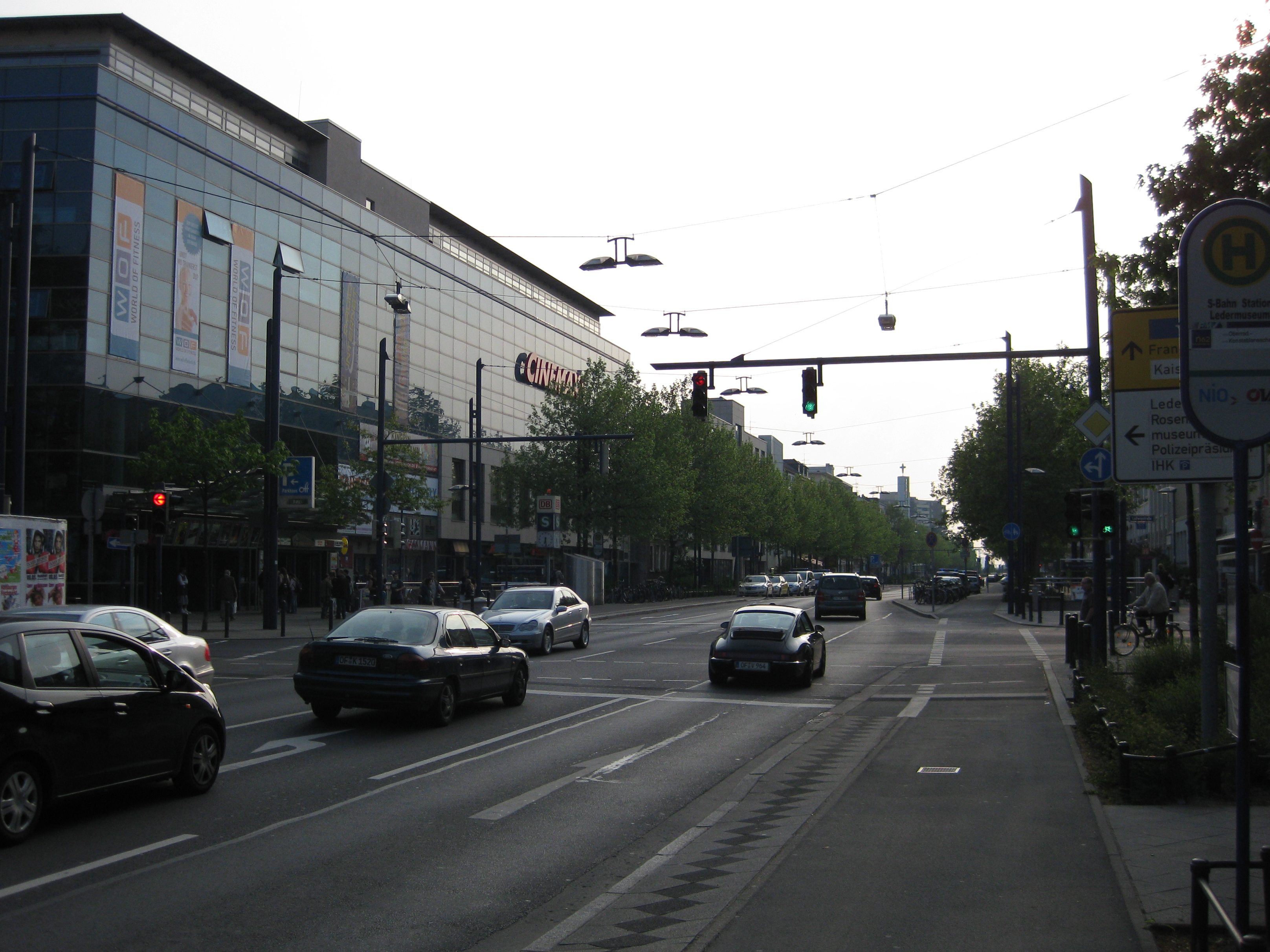 Berliner Str., in Offenbach